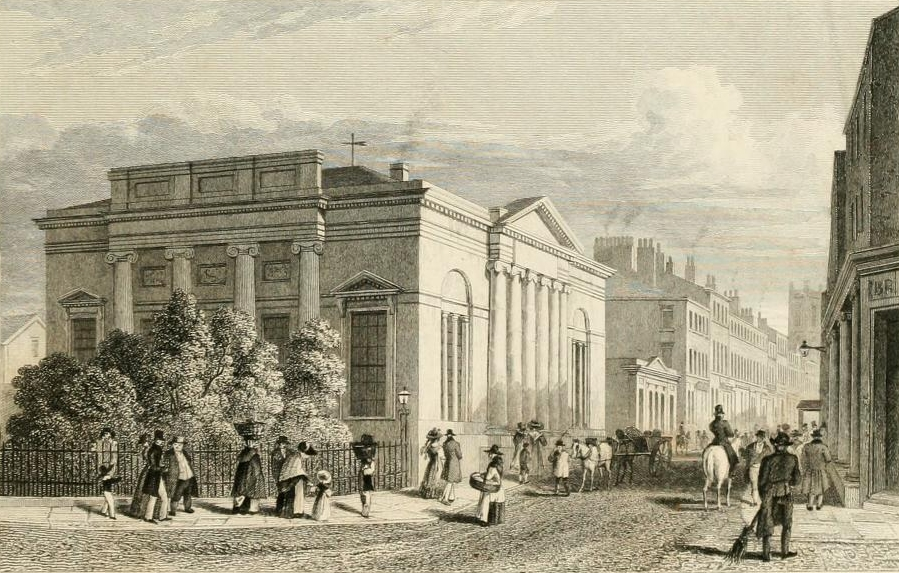 The Lyceum, located on Bold Street, Liverpool, UK. Drawn by G. & C. Pyne and engraved by Henry Jorden. 1828 Taken from 'Lancashire Illustrated' page 72, published 1832